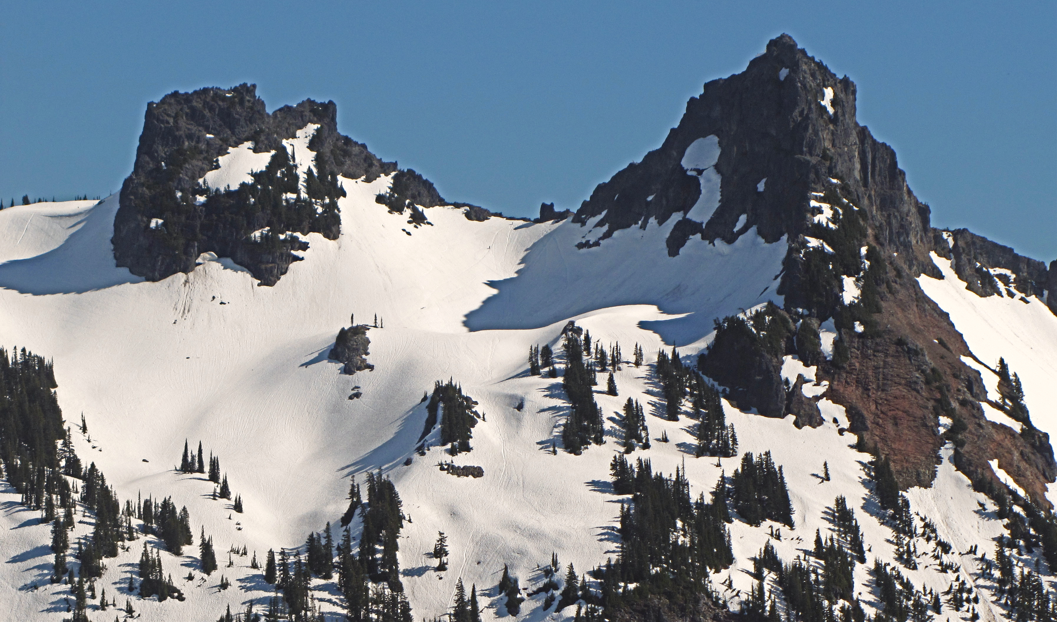 Mount Rainier National Park, The Castle (left) and Pinnacle Peak